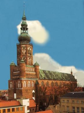 Dom St. Nikolai of Greifswald (Germany) from South